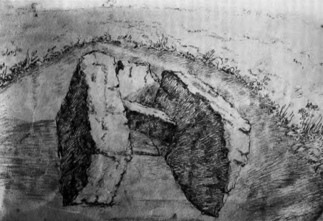 One of Clement Smythe's two drawings of the archaeological discovery now known as Smythe's Megalith.